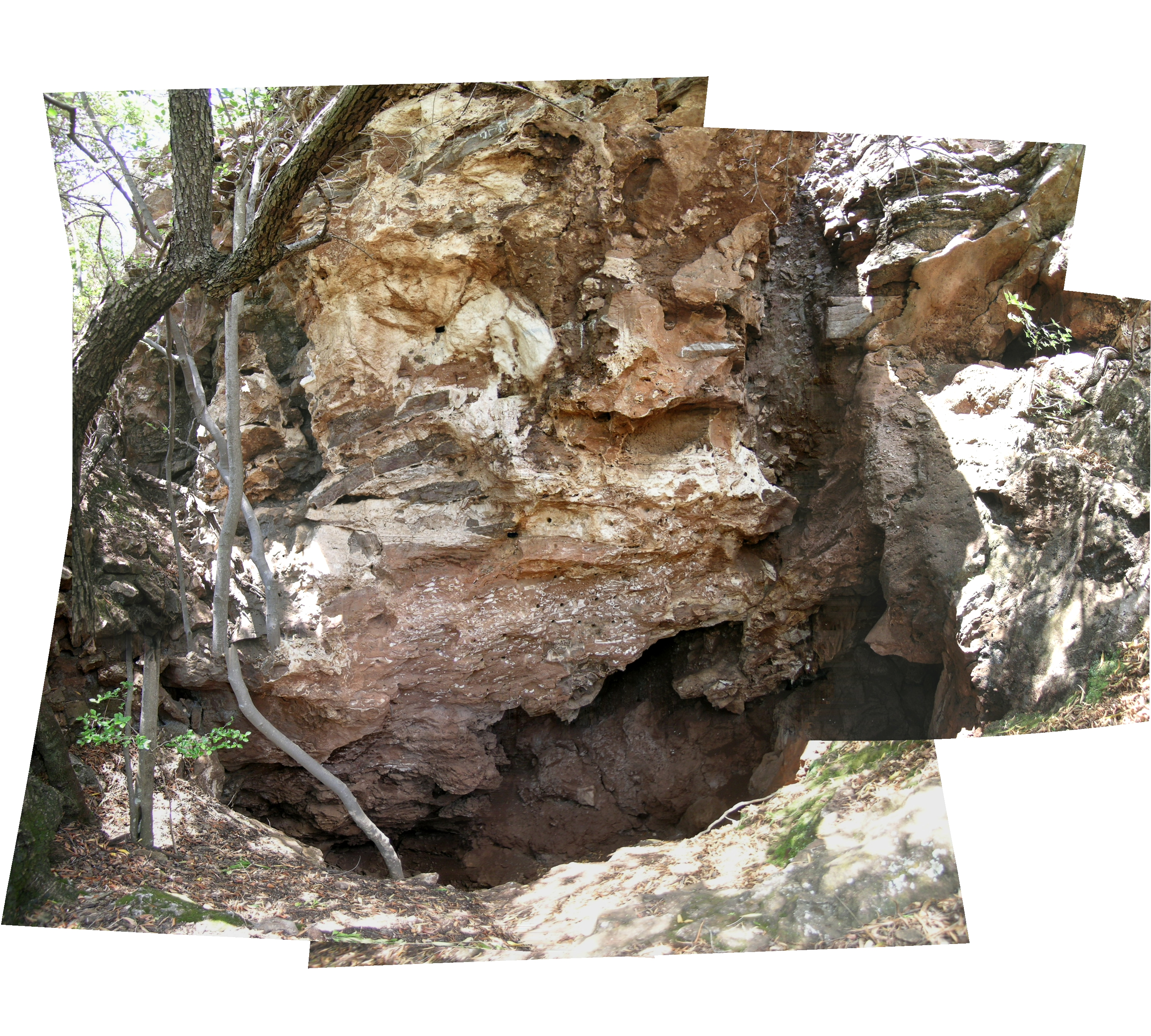 Composite photo of the northern wall of the Gondolin cave system showing the exposed fossils of the deposits